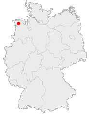 Position of Aurich in Germany